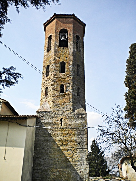 bell tower